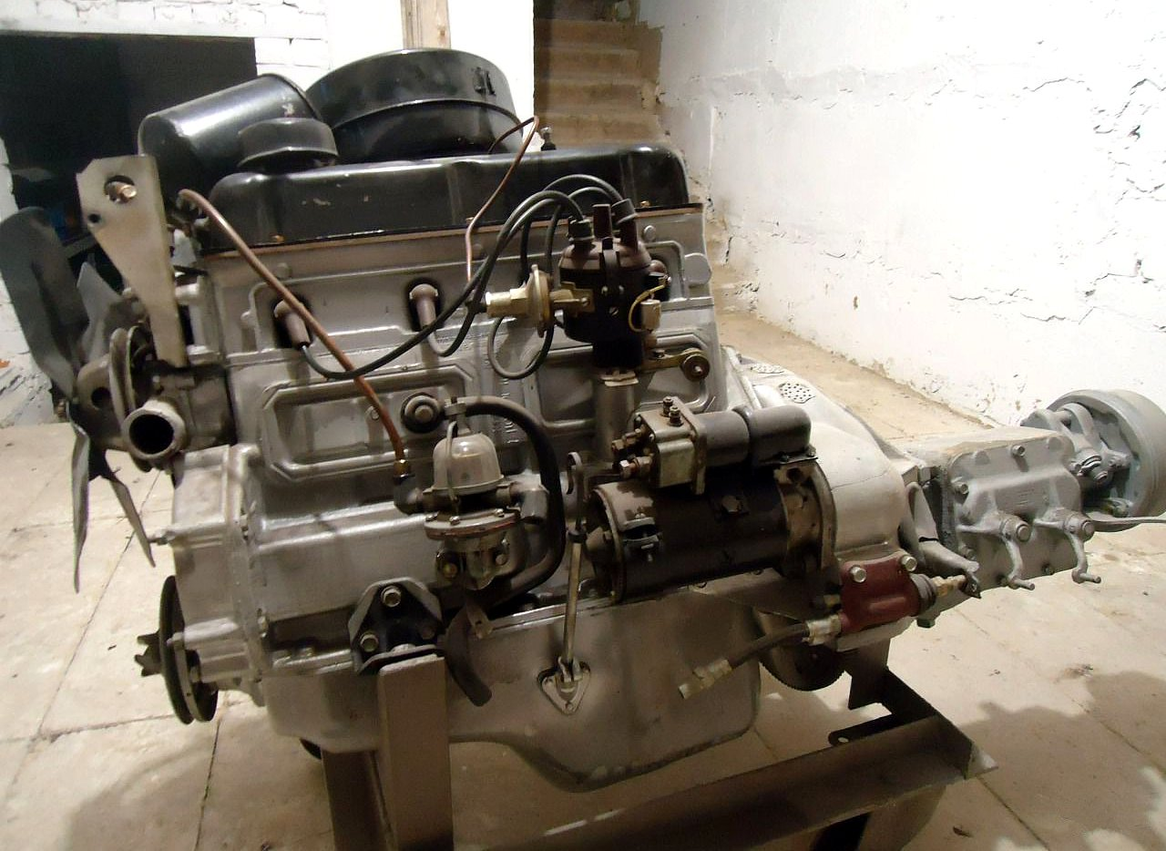 A restored GAZ-21 engine, view from left.